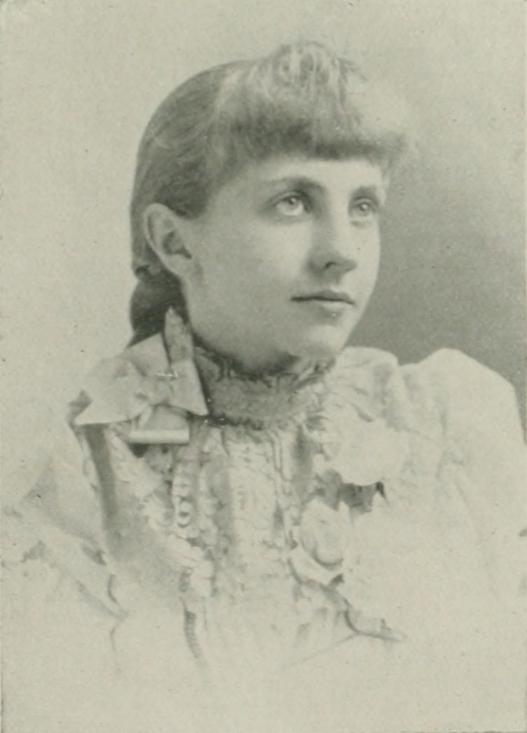 Page:A woman of the century.djvu/